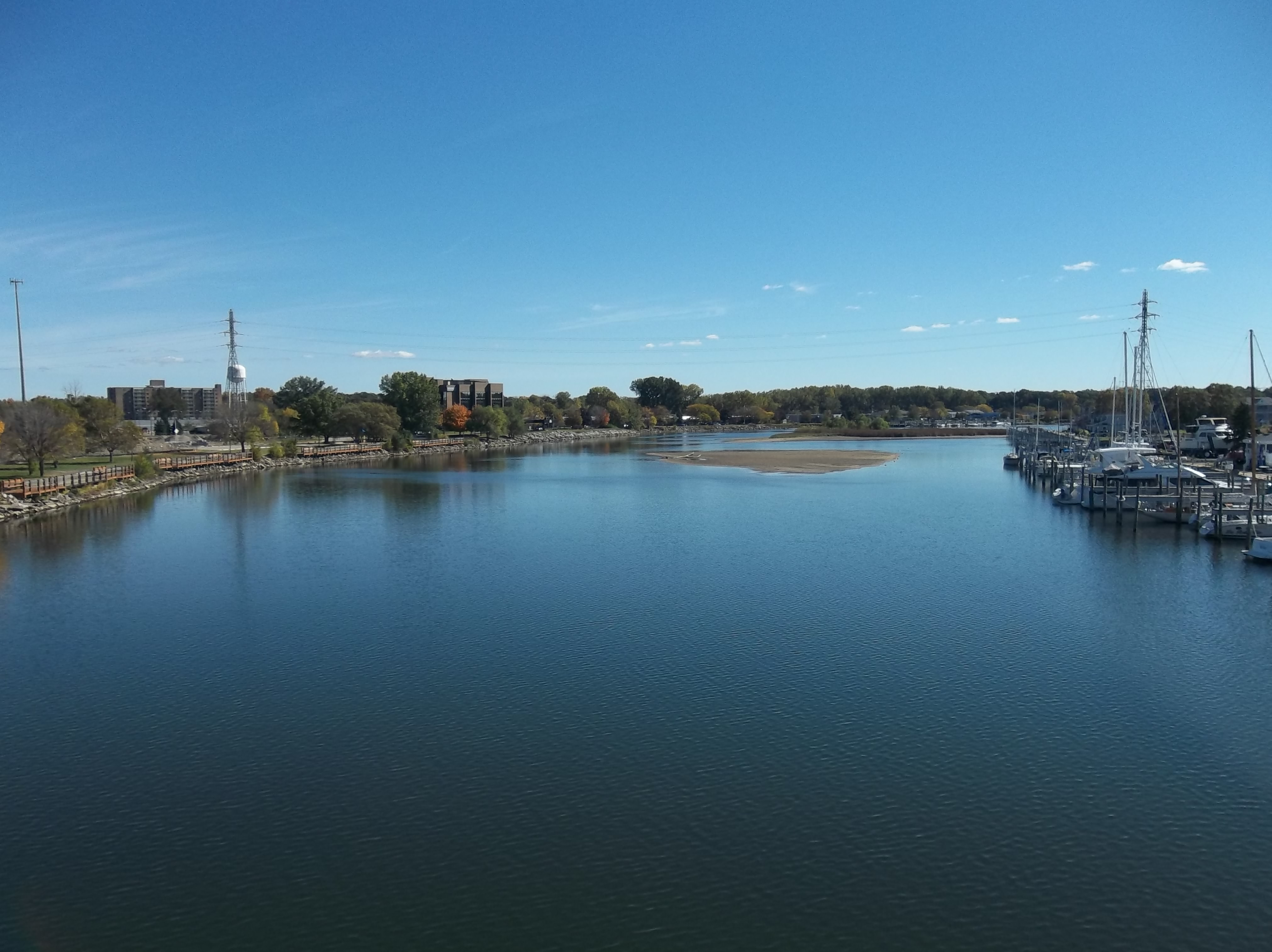 St Joseph River flowing through Benton Harbor